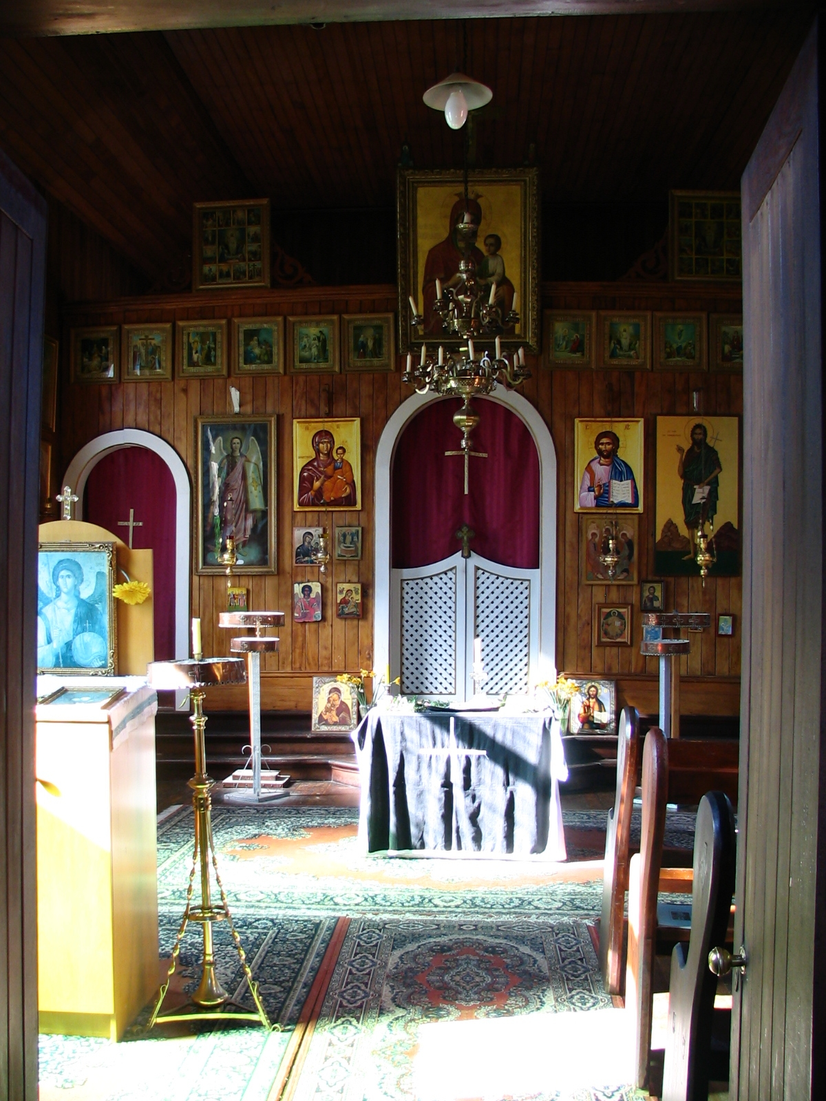 Interior view of St Michael's Antiochian Orthodox Church, 72 Fingall St, Dunedin, New Zealand. First Eastern Orthodox Church in New Zealand, built in 1911.